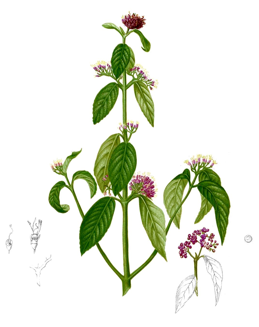 Plate from book